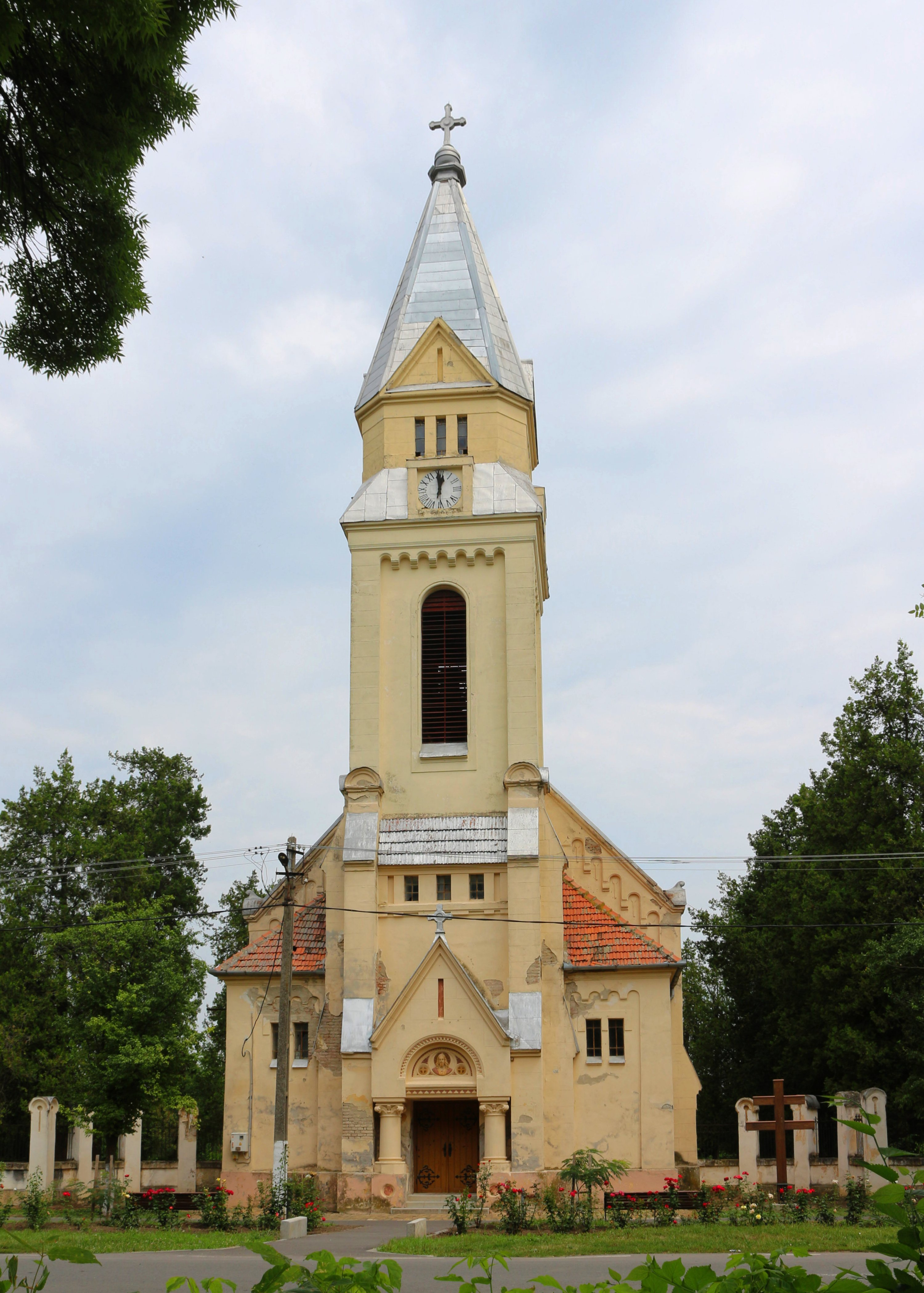 The catholic church, Teremia Mare, Județul Timiș, Romania.